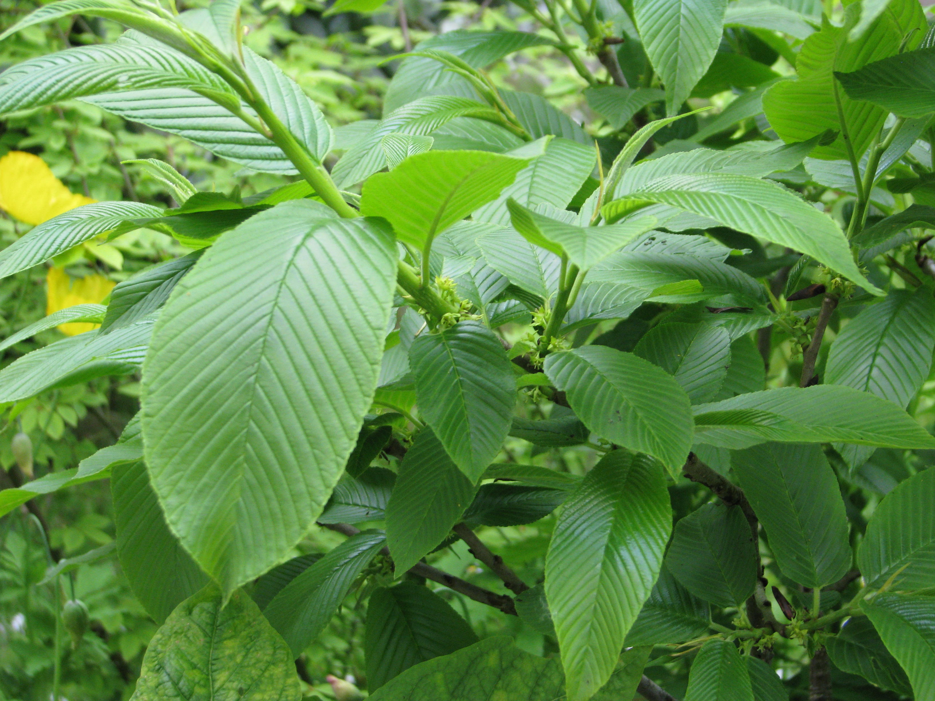 Rhamnus imeretina flowers